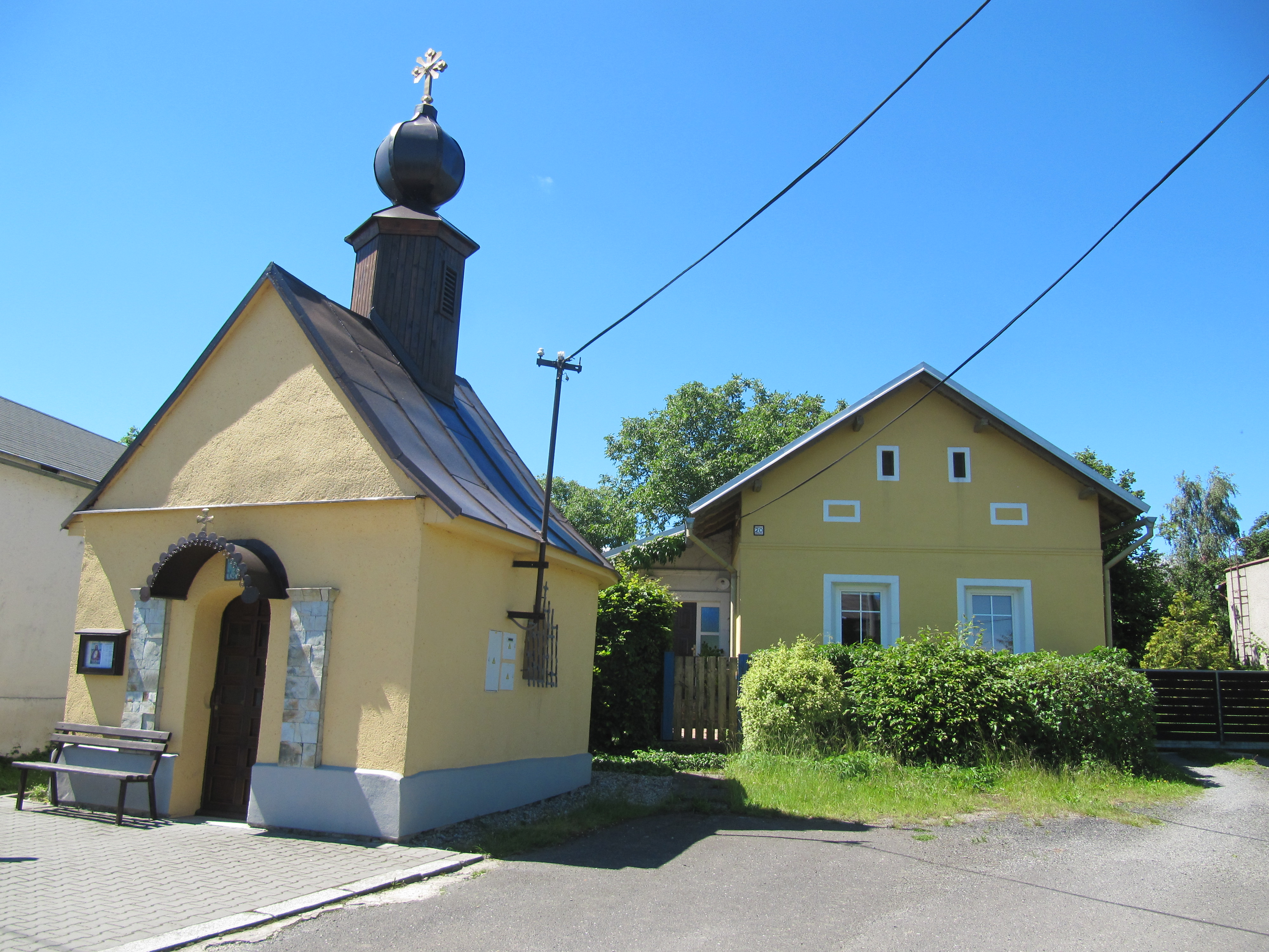 Bílovec, Nový Jičín District, Czech Republic, part Výškovice.